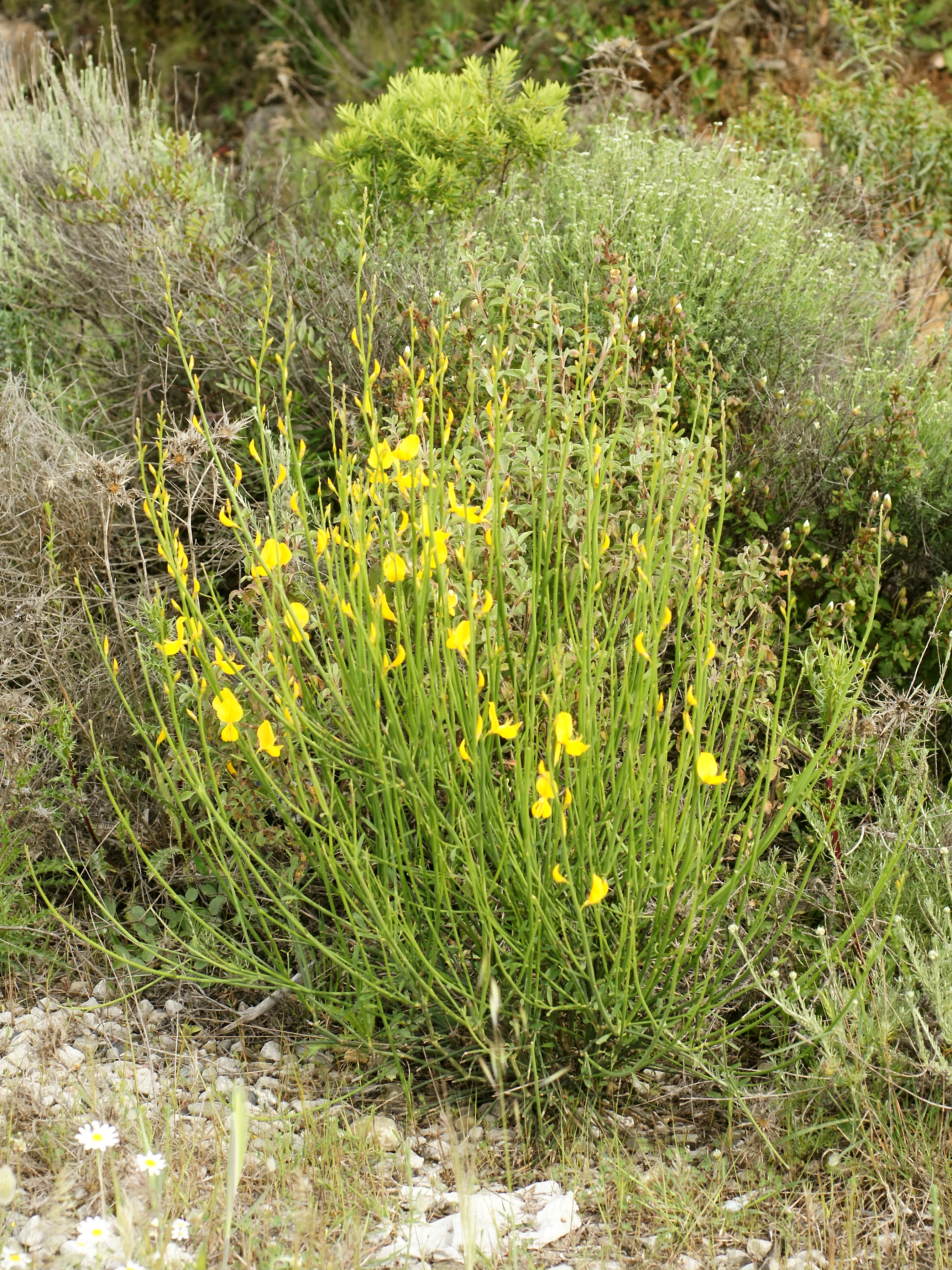 Spanish broom near Perasdefogu, Sardinia, Italy.